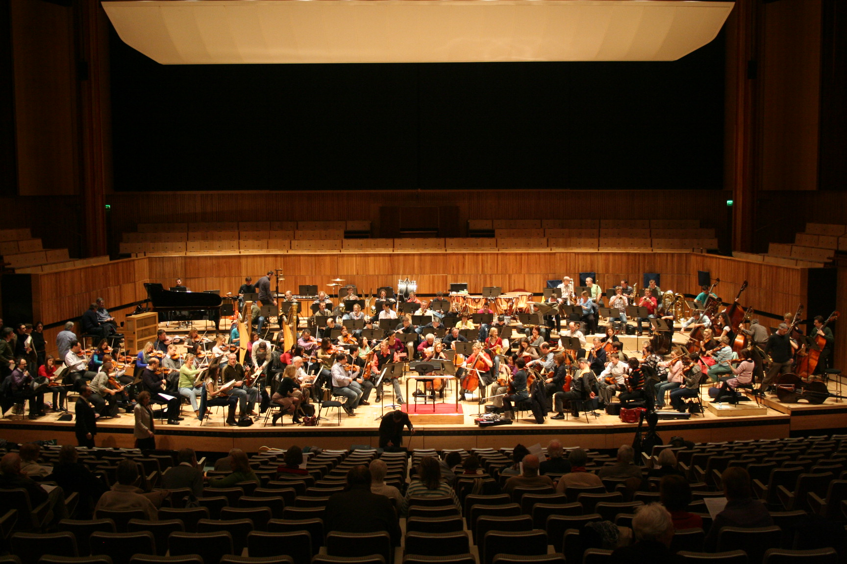 London Philharmonic Orchestra at final rehearsal for Prokofiev's Romeo and Juliet, 02.17.2010, in Royal Festival Hall, London.